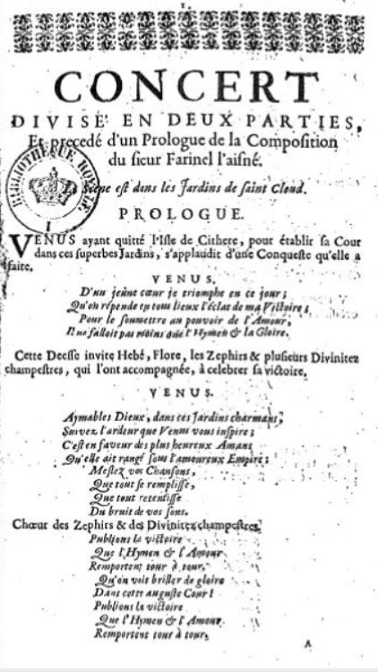 Title page of Michel Farinel's Concert divisé en deux parties (1679). Paris BNF.